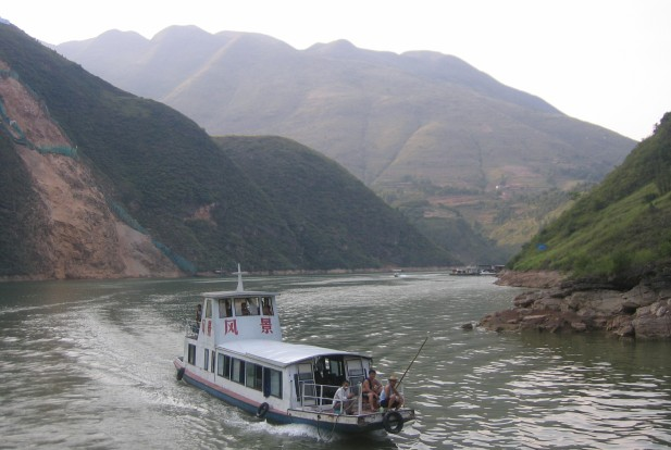 On the Yangtze River in China, just before sunset.